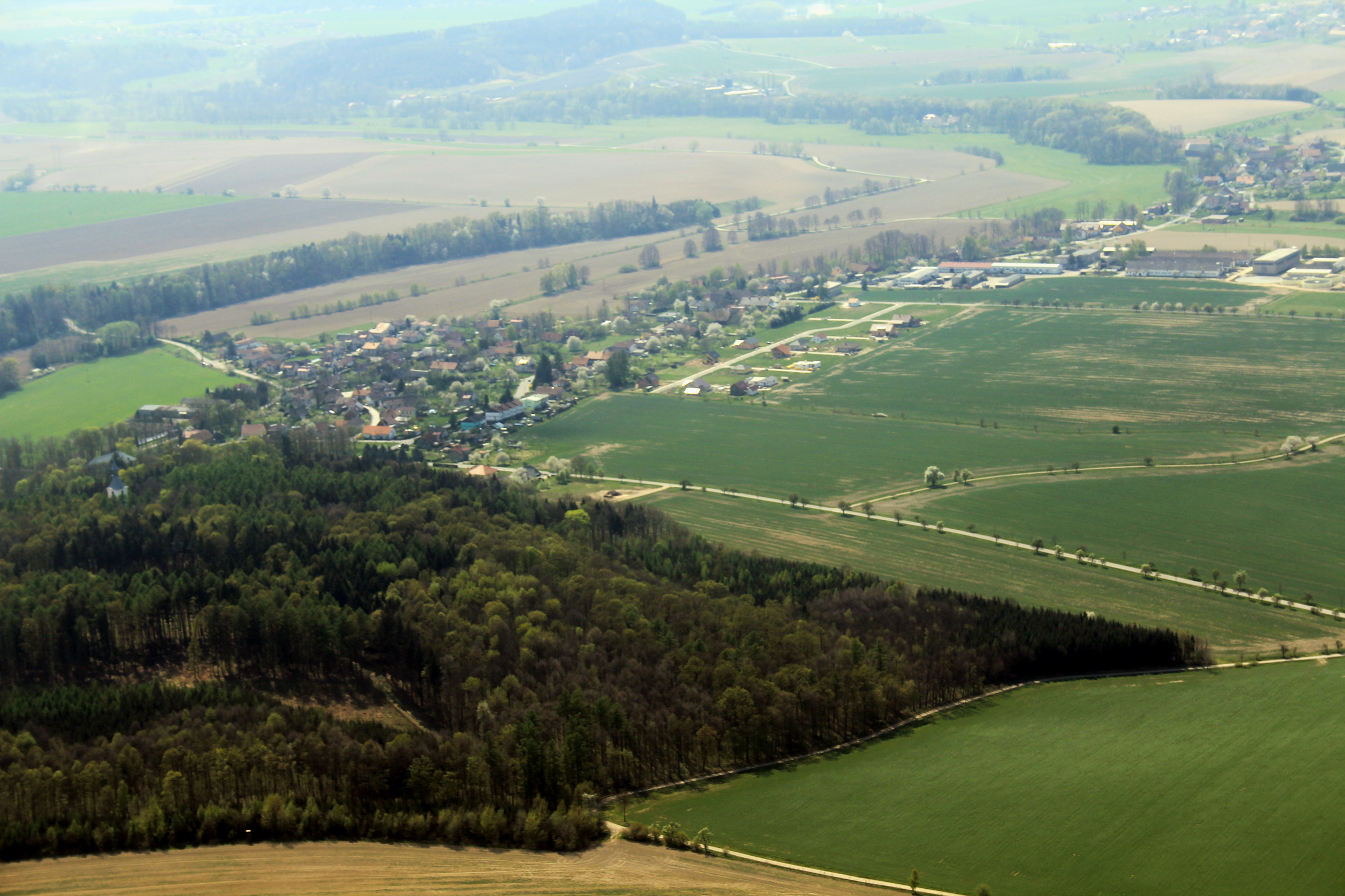 Village Černíkovice in Rychnov nad Kněžnou District from air, eastern Bohemia, Czech Republic